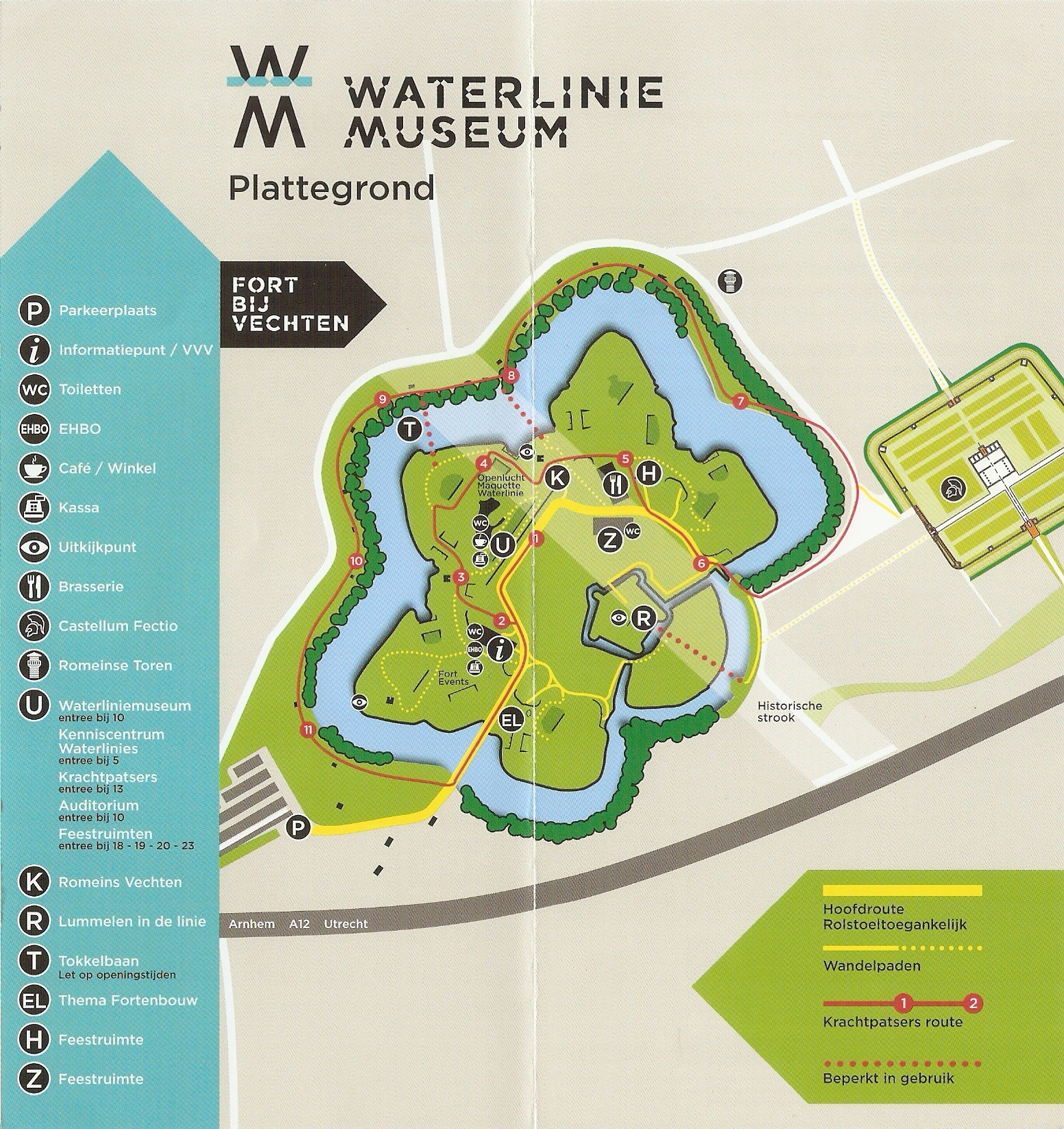 Map of the Waterliniemuseum.